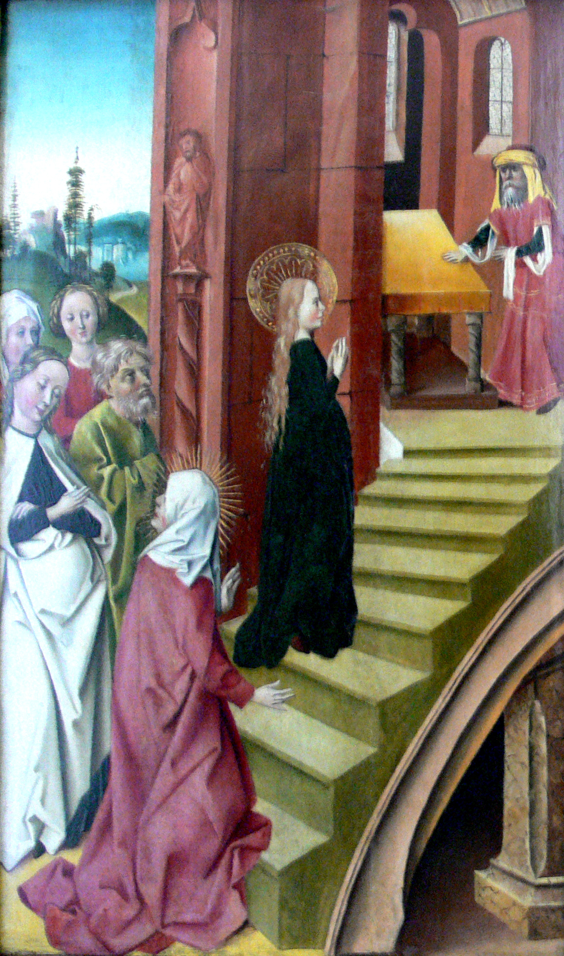 The Presentation of the Virgin Mary in the Temple of Jerusalem, Ulm (?) um 1480 Landesmuseum Württemberg Native nameLandesmuseum WürttembergLocationStuttgart, GermanyCoordinates48° 46′ 37″ N, 9° 10′ 44″ E Established1862Websitelandesmuseum-stuttgart.deAuthority control VIAF: 138971906 ISNI: 0000 0001 2314 7812 ULAN: 500309312 LCCN: n50011461 NLA: 36103358 WorldCat Inventory number 1201a (aus der Sammlung Konrad Dietrich Haßler)